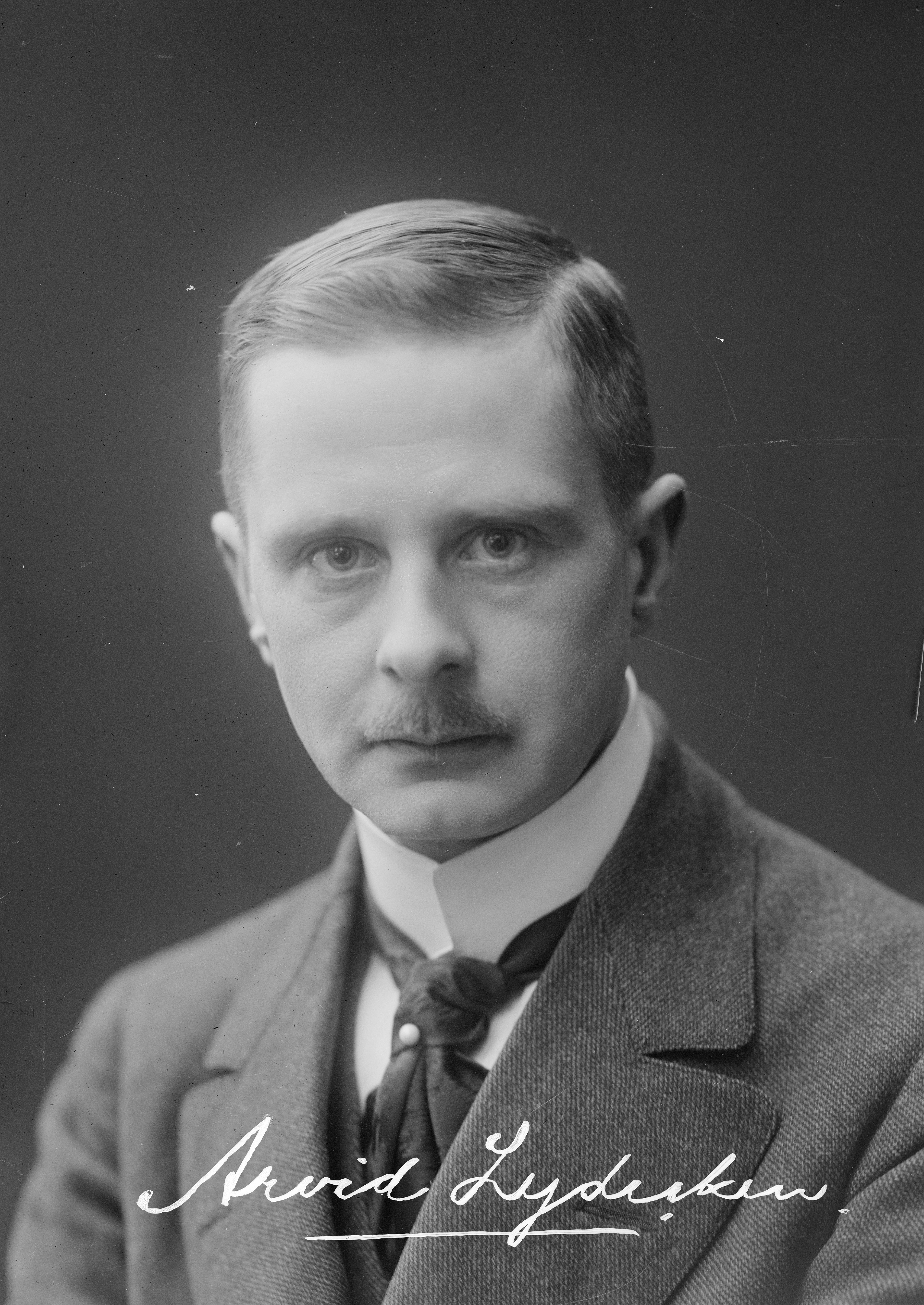 Photograph of the Finnish writer Arvid Lydecken (1884–1960)